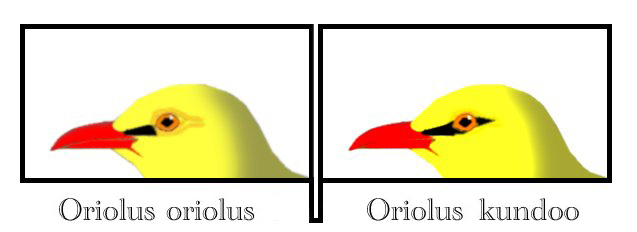 Two species of Eurasian orioles Oriolus oriolus & Oriolus kundoo